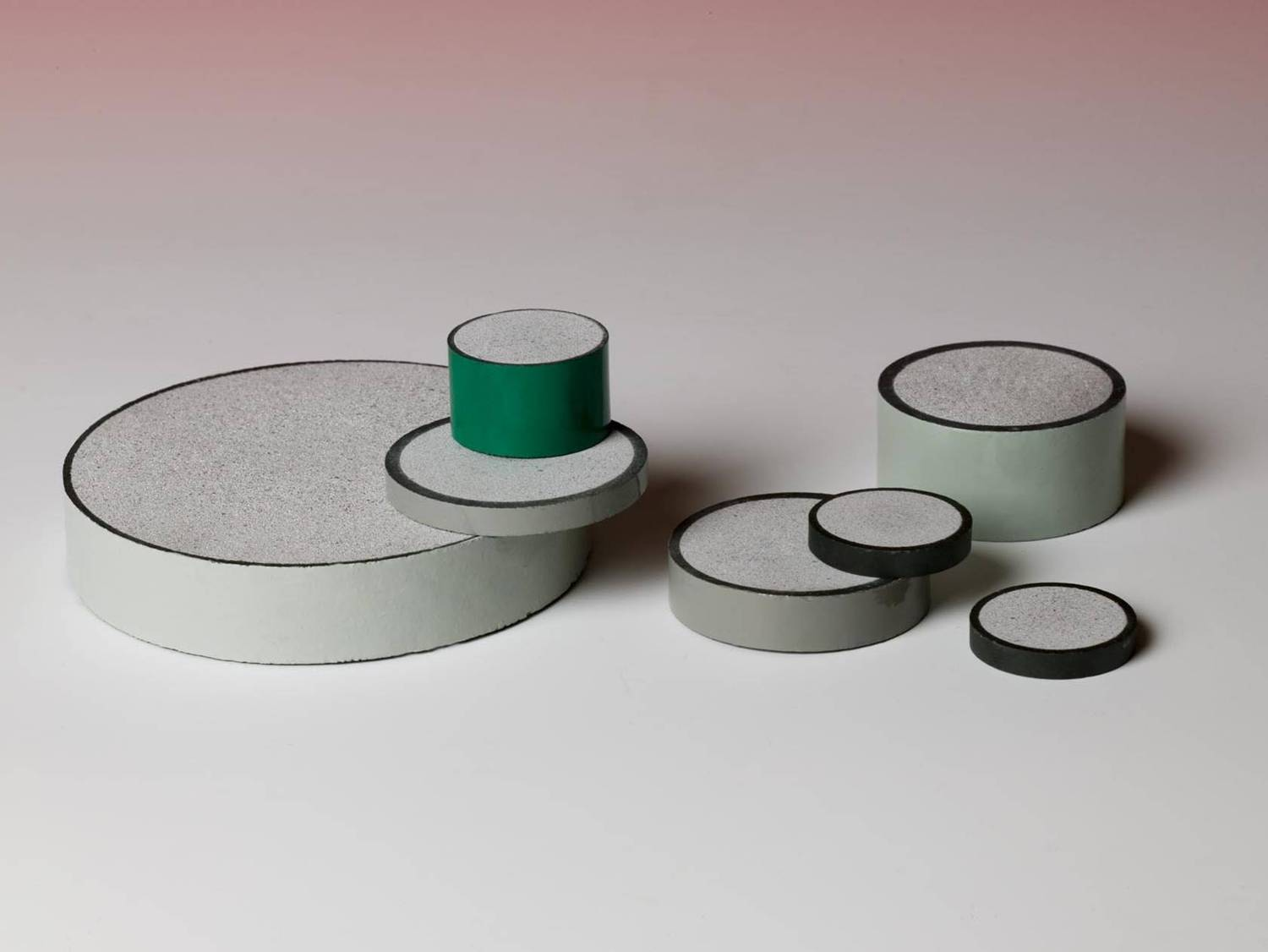 A collection of varistors